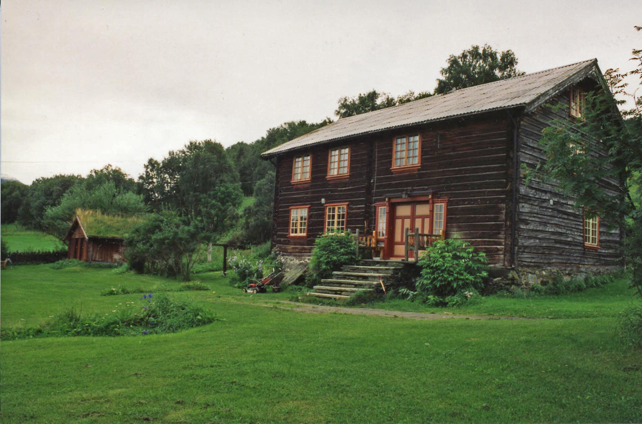 Trønderlåne - example of vernacular architecture typically found in Trøndelag, Norway. This is the main house (våningshus) in Nervika, Oppdal, Norway.